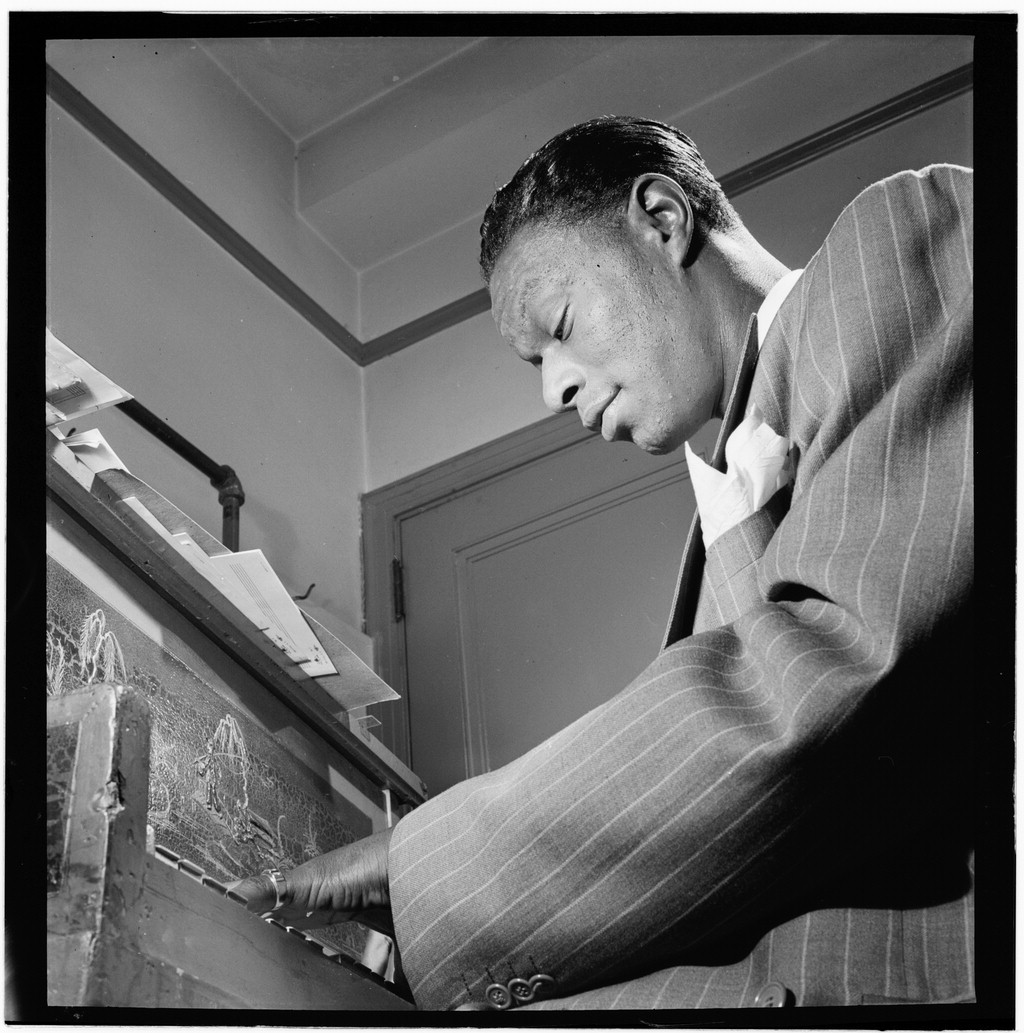 Nat King Cole, New York, N.Y., ca. June 1947 (Photograph by William P. Gottlieb)